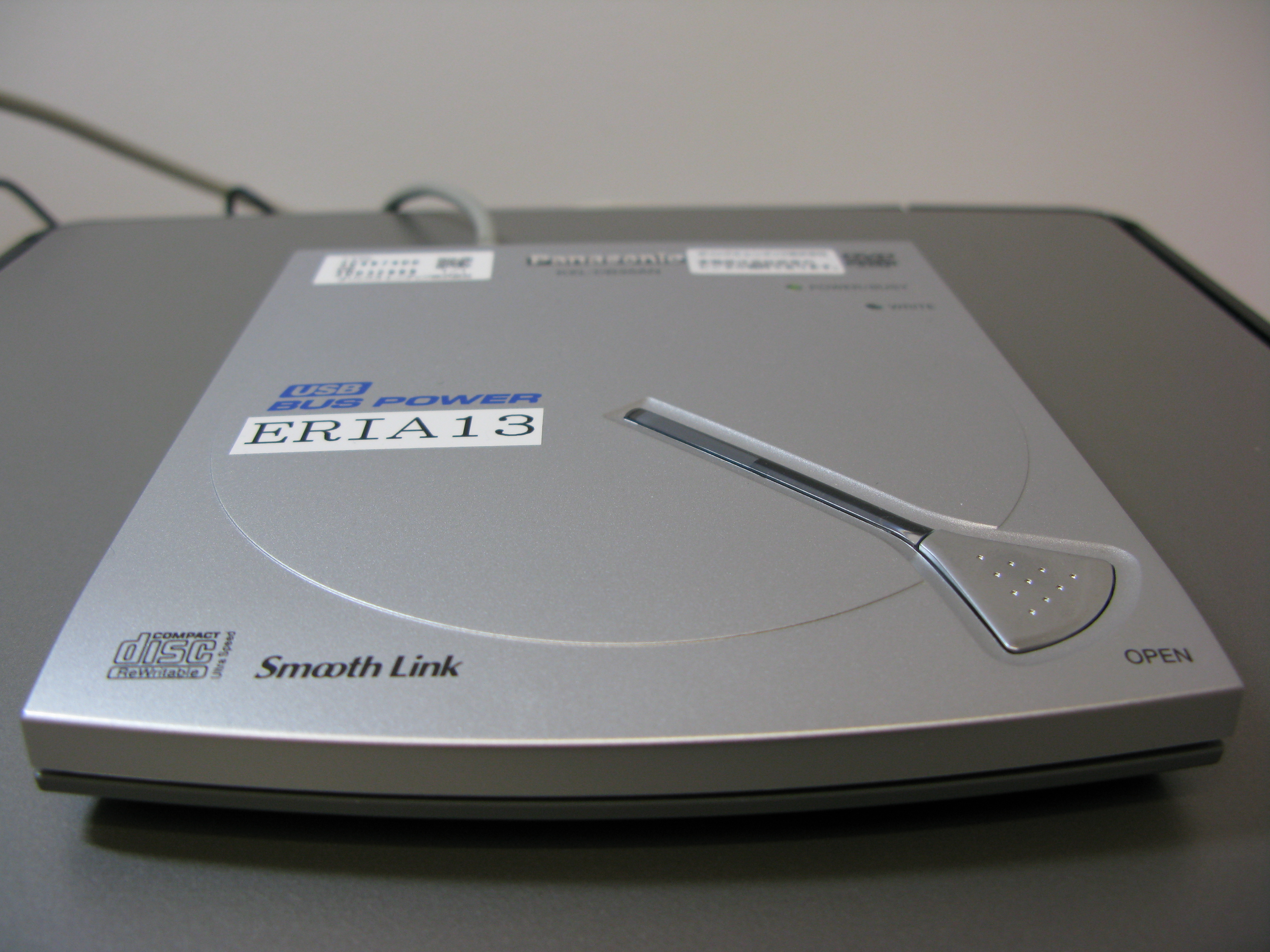 A DVD-ROM/CD-RW device made by Panasonic